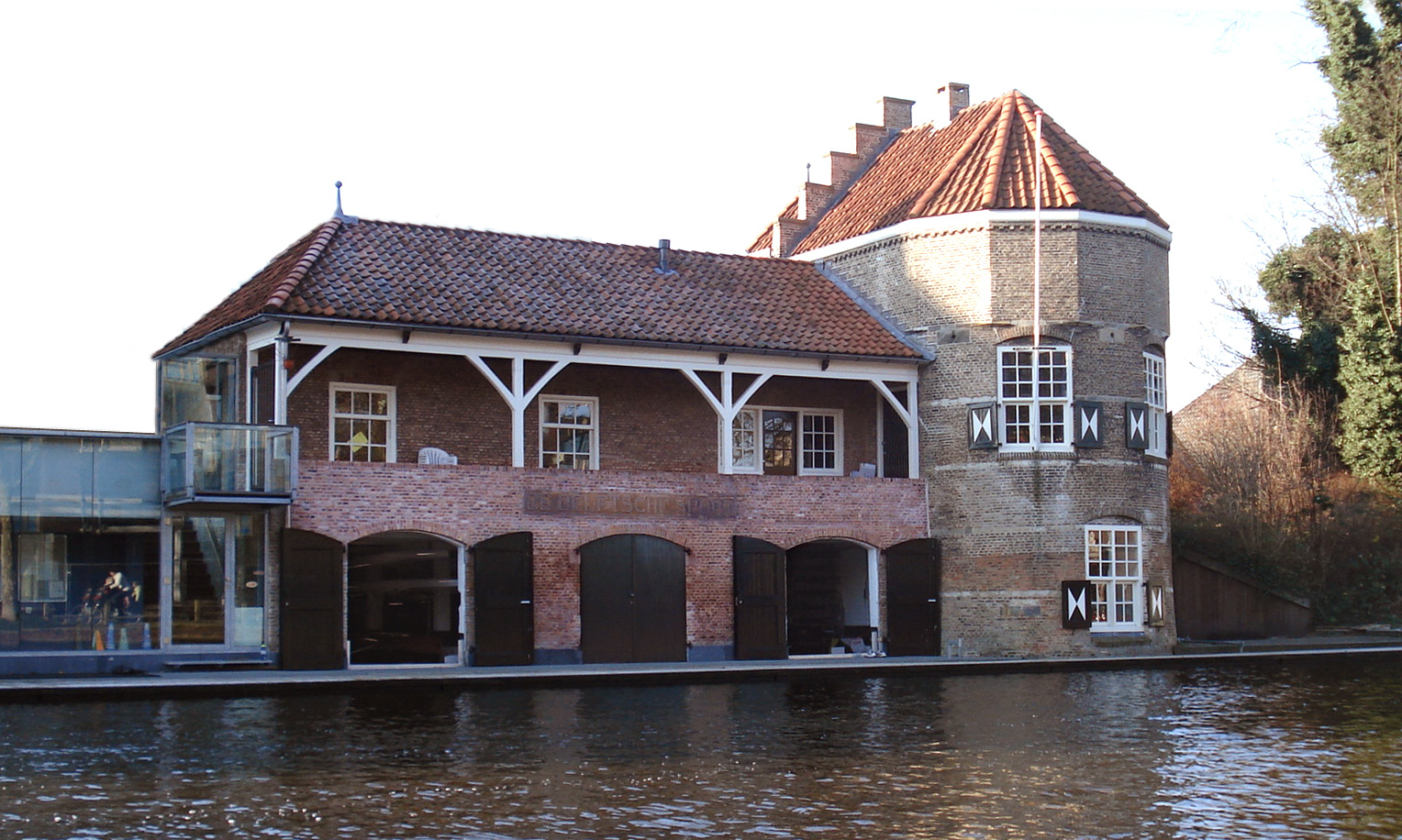 Han van Meegeren's Clubhouse "B". Han van Meegeren, the famous art-forger, designed this boat-house for his Rowing Club D.D.S. when he studied architecture in Delft from 1907 to 1913